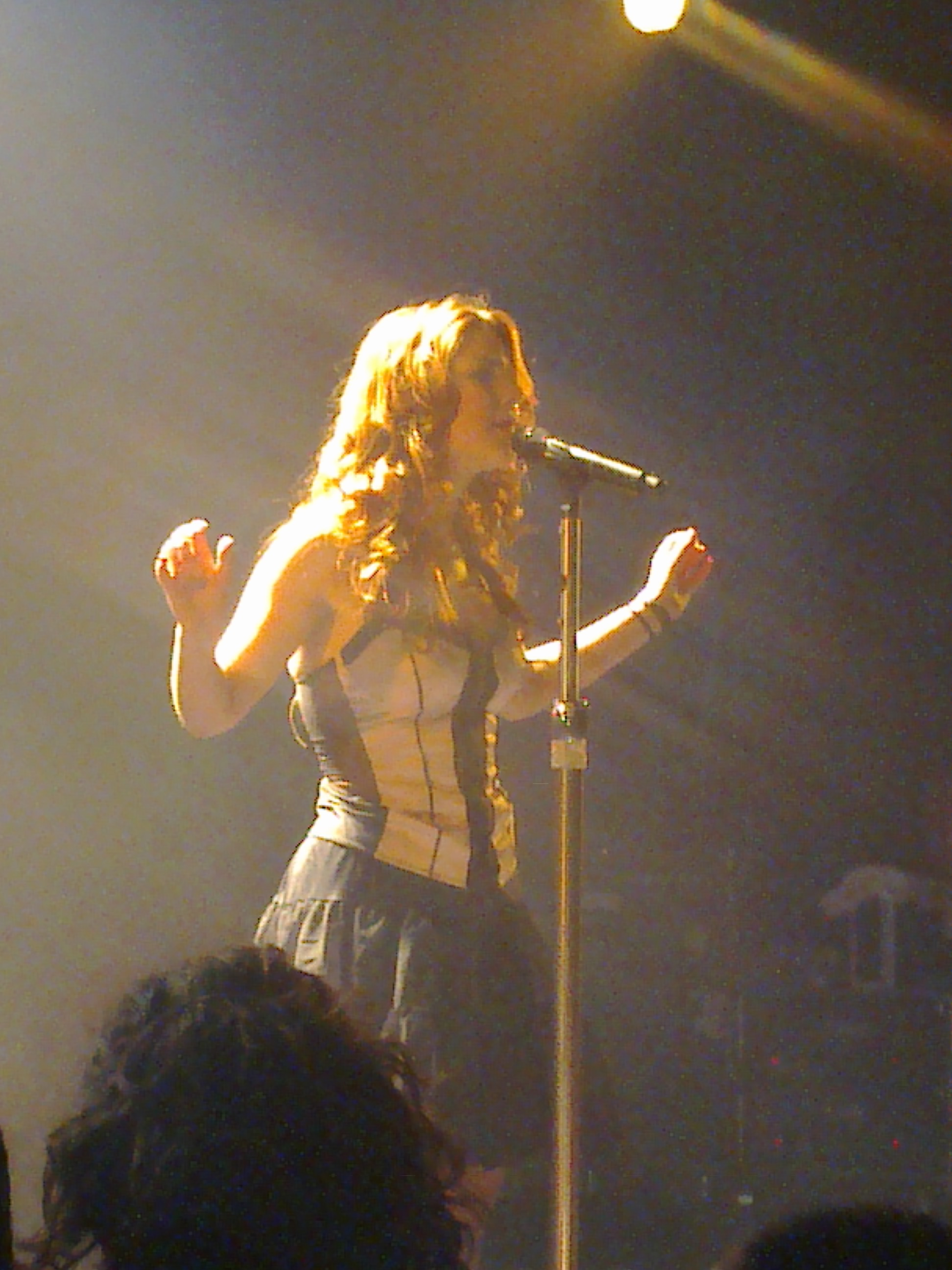 Picture of Charlotte Wessels, singer of the symphonic metal band Delain, during their concert in La Laiterie, Strasbourg, France, on 2011-04-05.